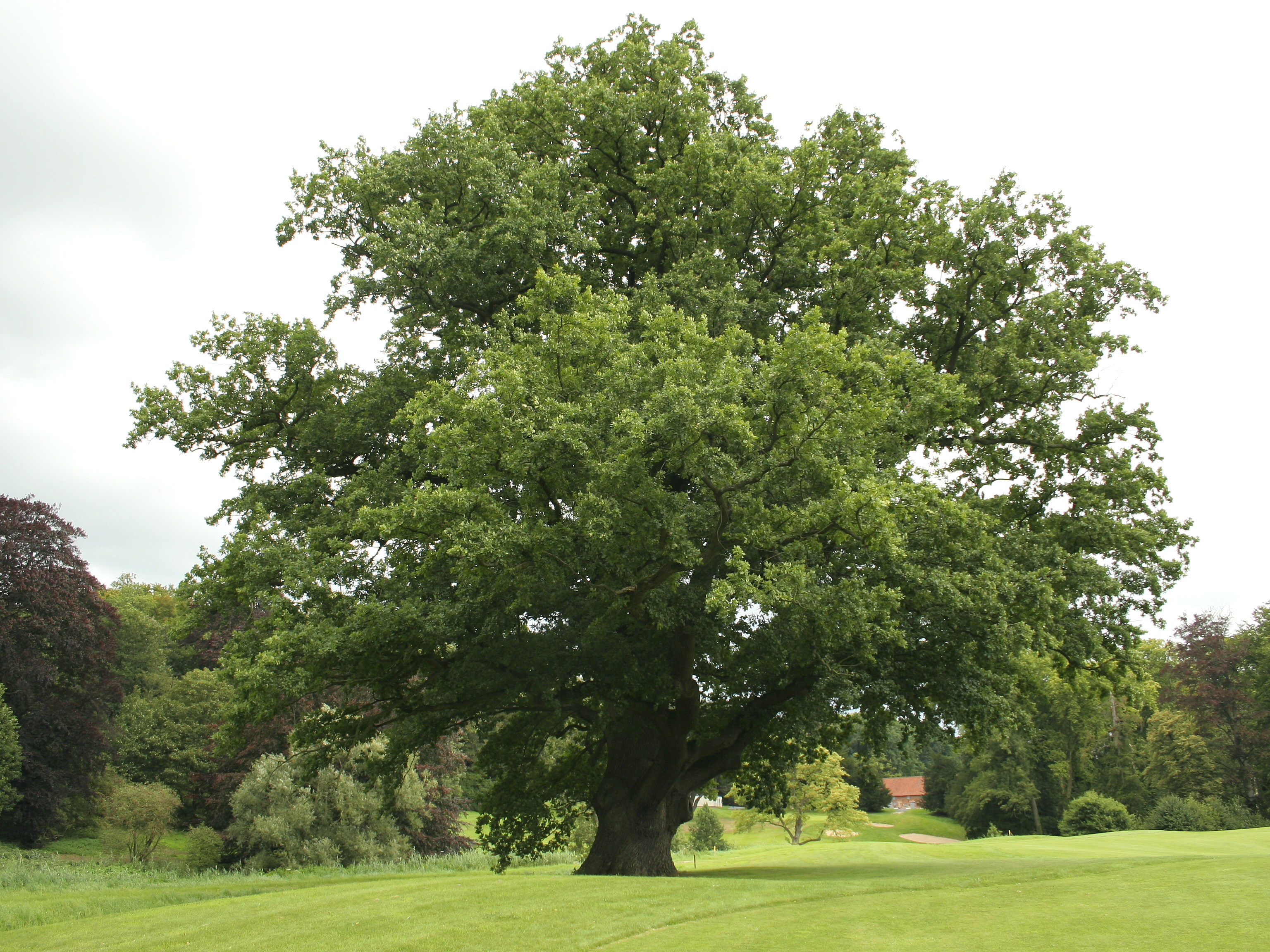 Pedunculate oak